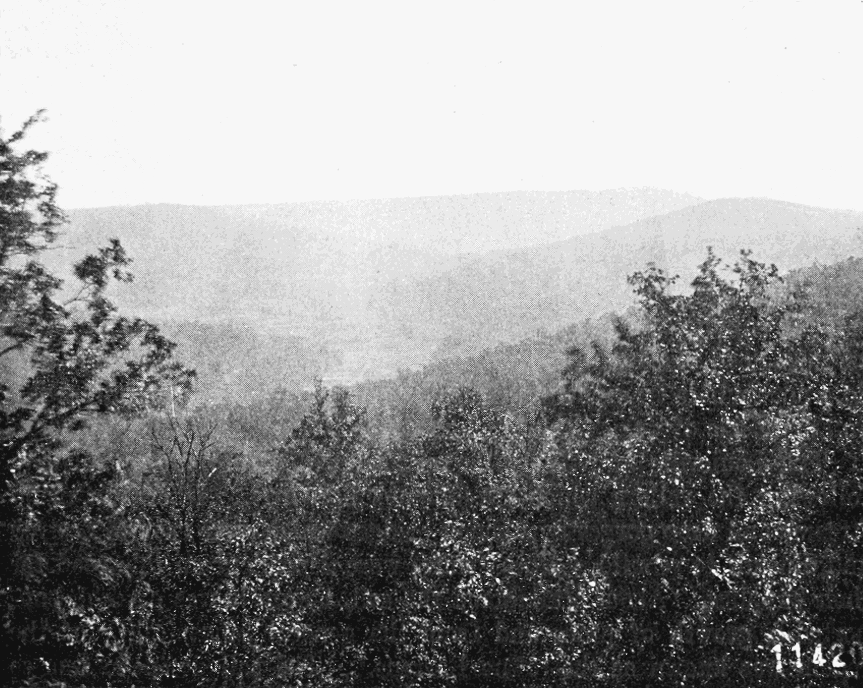 The Cumberland plateau near Sewanee Tennessee